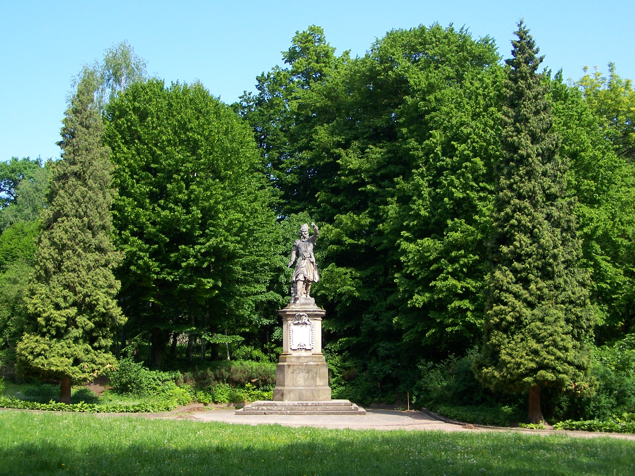 Statue of Jan Kiliński in Lviv (Ukraine).